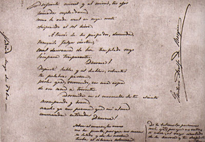 Manuscript of Becquer's Rima XXVII